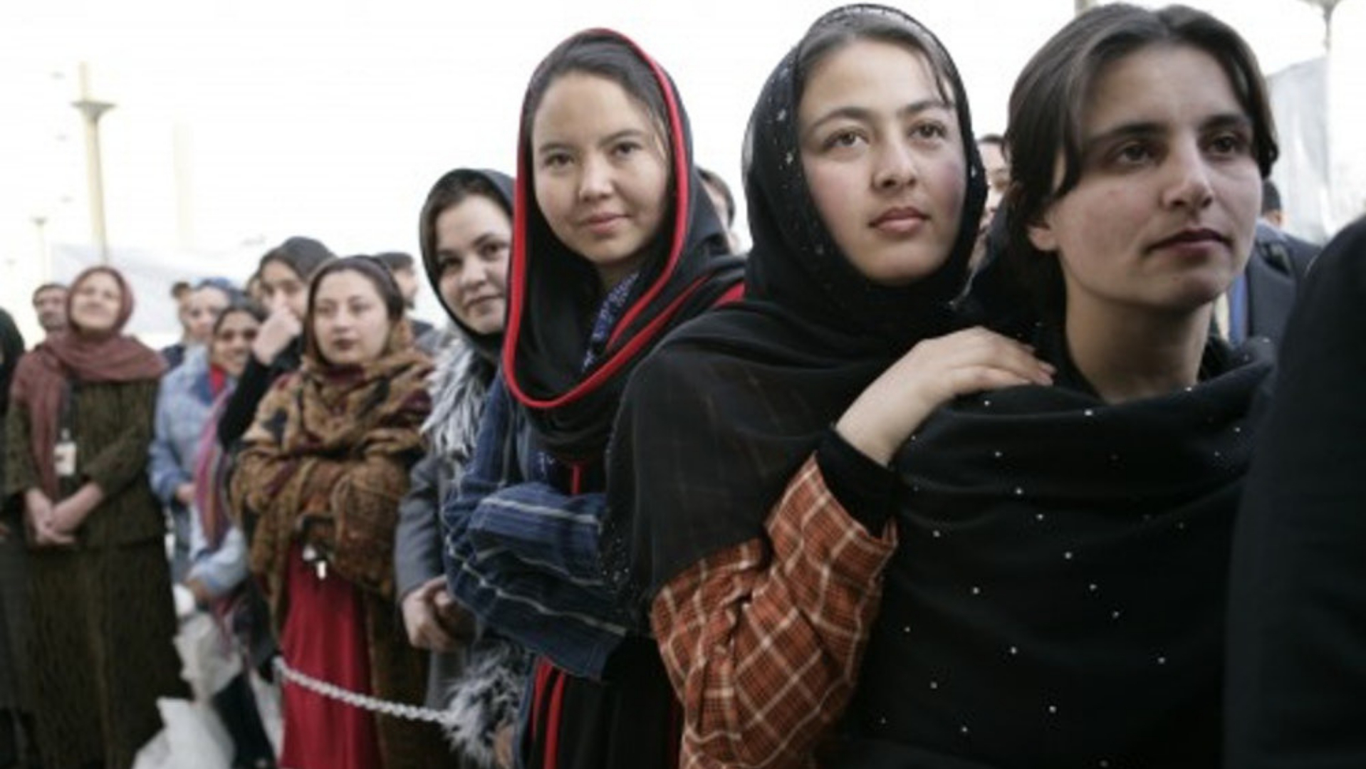 Women of Afghanistan stand outside the U.S. Embassy in Kabul, Wednesday, March 1, 2006. President George W. Bush and Laura Bush made a surprise visit to the city and presided over a ceremonial ribbon-cutting at the embassy.